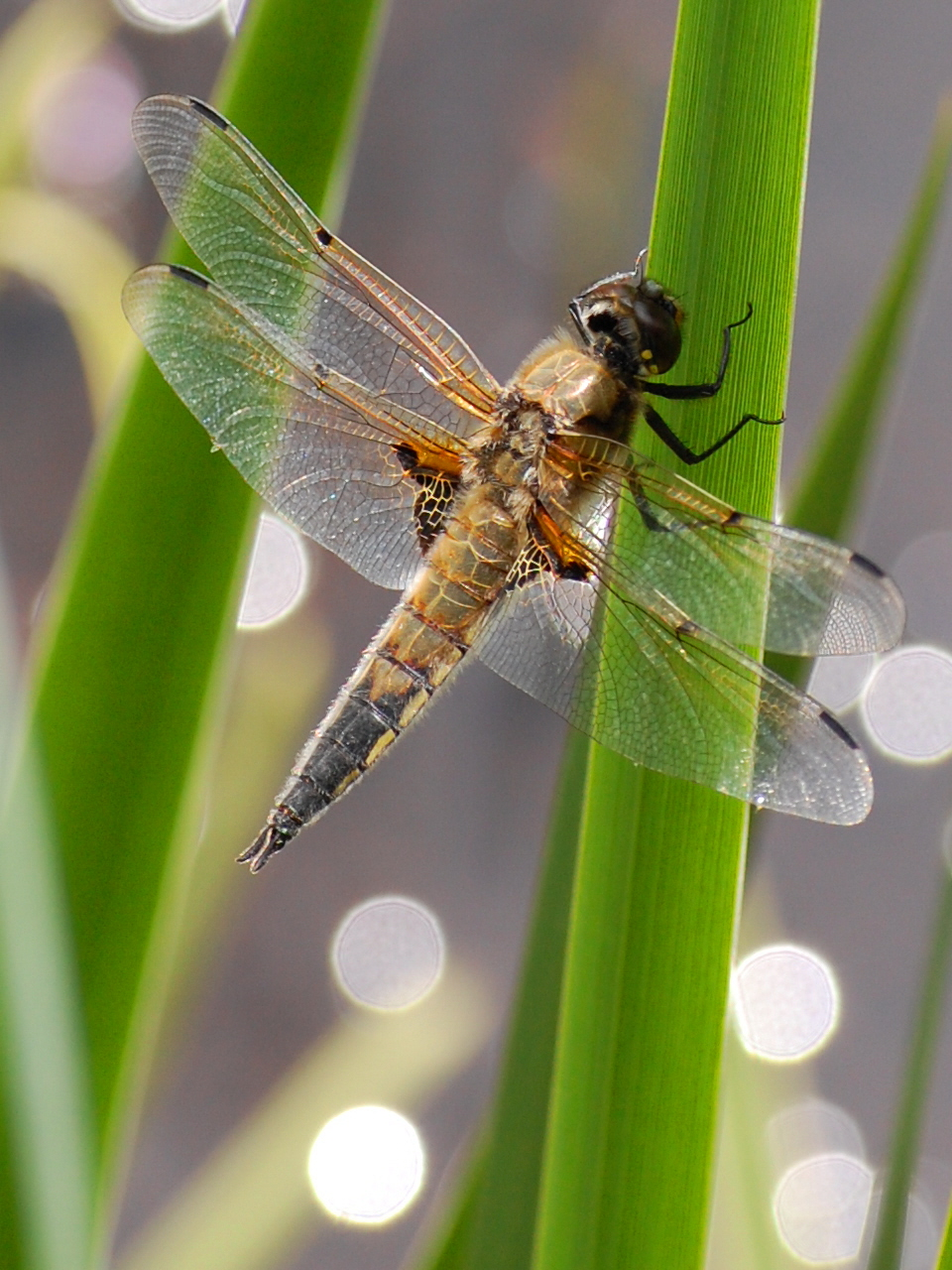 Dragonfly, with the pond glistening in the sun in the background; Brandon Country Park, Suffolk.